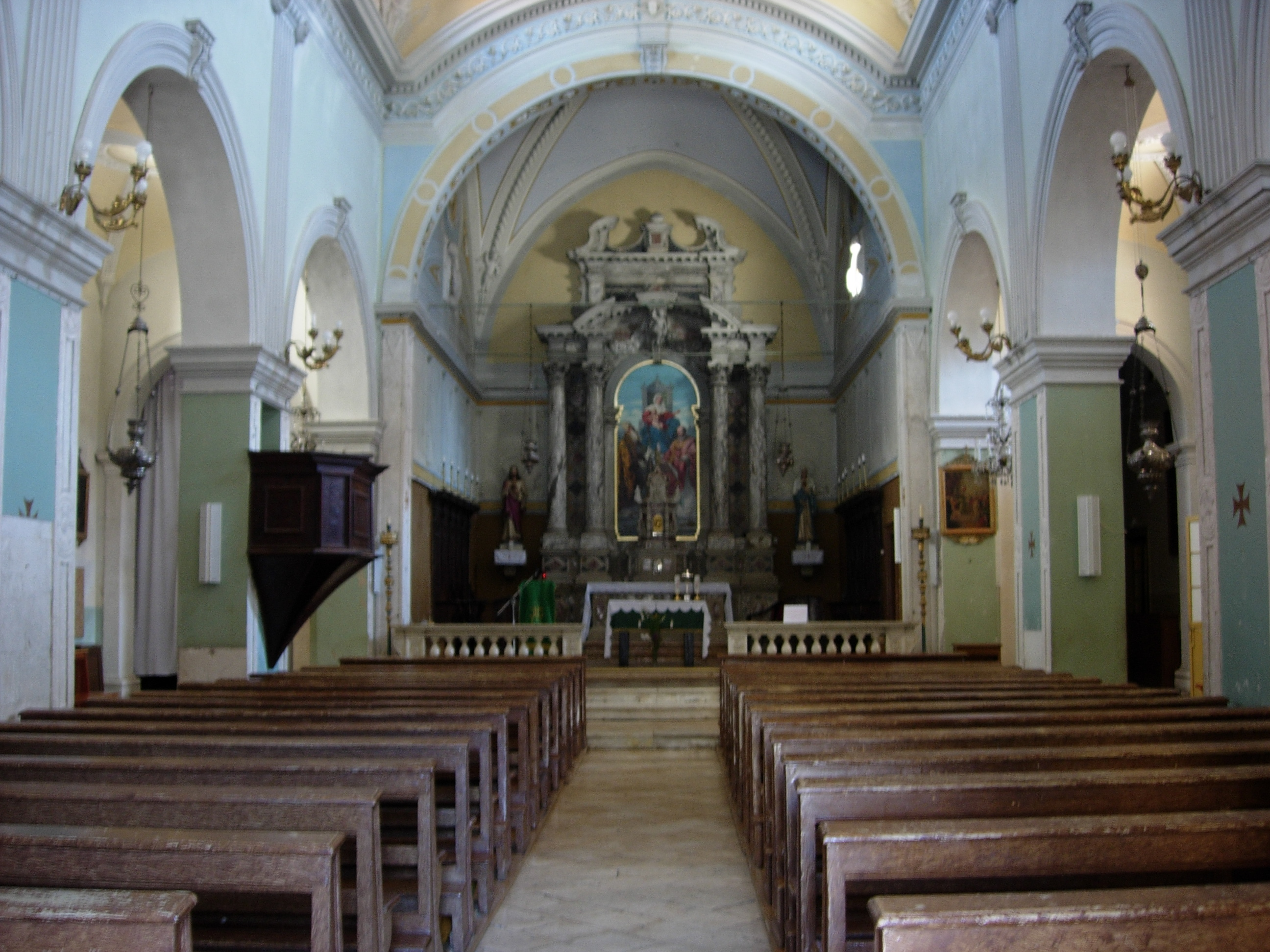 Inside Church of St. Stephan (Sv. Stjepan) in Stari Grad.